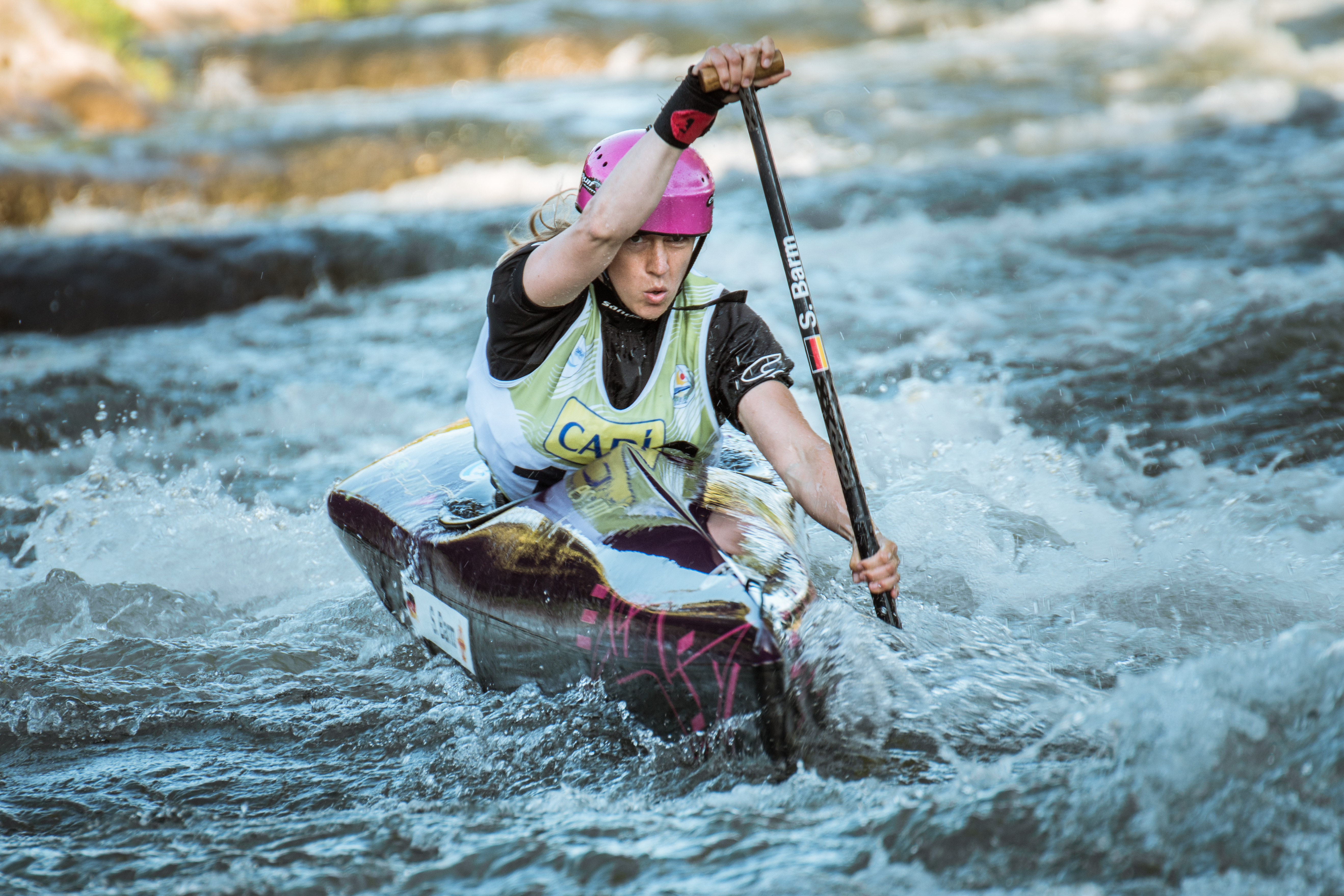 Sabrina Barm during the 2019 Canoe Wildwater World Championships in La Seu d'Urgell, Spain.